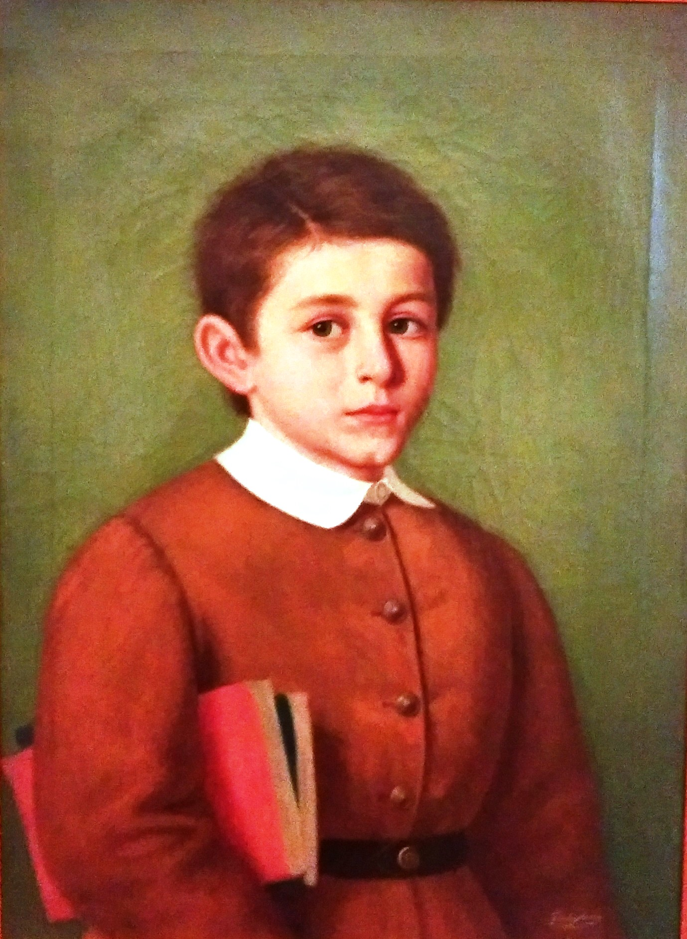 An 1872 portrait of the young Tsvetan Radoslavov by Nikolay Pavlovich